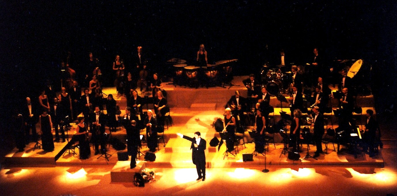 Helmut Lotti and his Golden Symphonic Orchestra at their "Out of Africa" tour in Dresden, 2000.